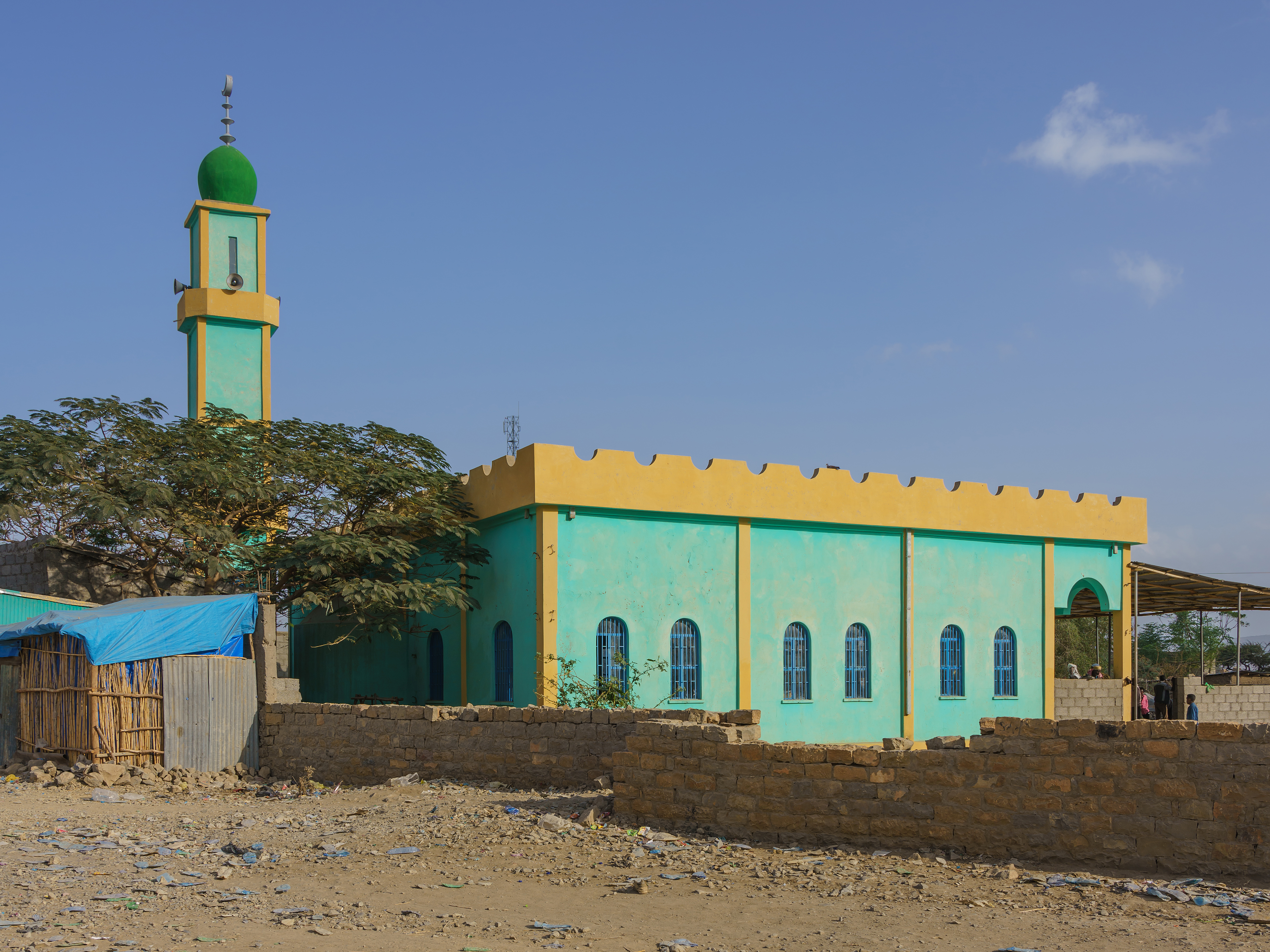 Abala town, Afar Region, Ethiopia